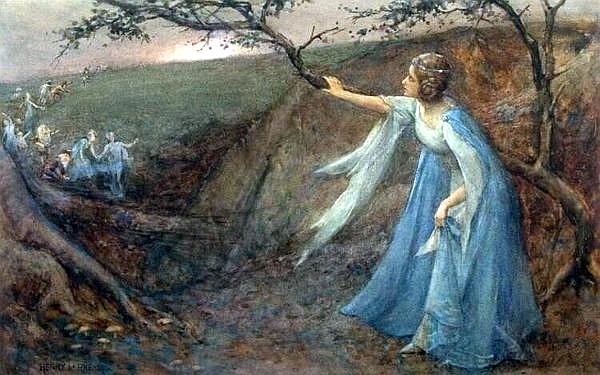 Titania welcoming her fairy bretheren